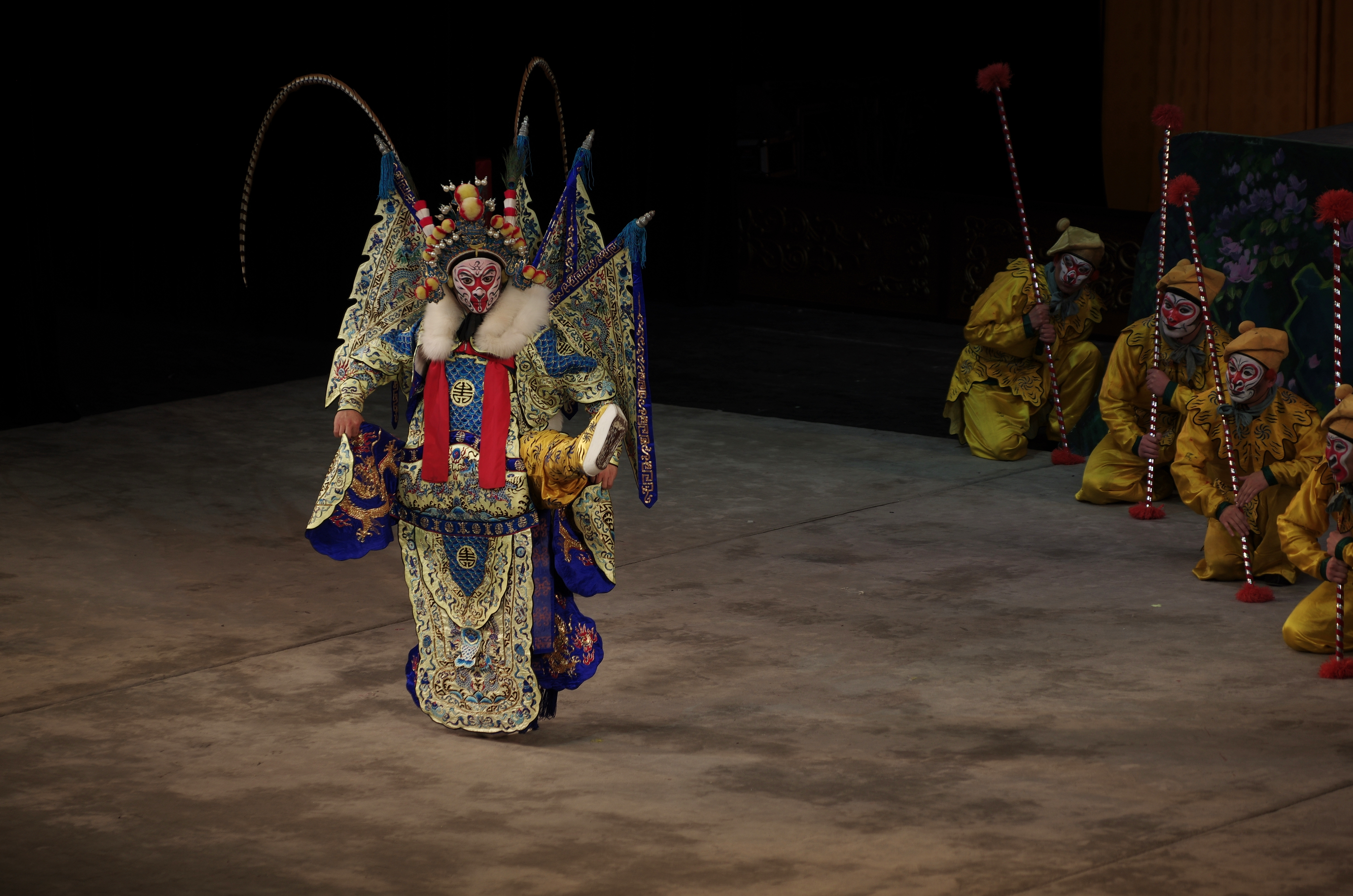 A Peking opera performance by Jilin Peking Opera House (吉林省京剧院) in Tianchan Theatre, Shanghai, China, starring Yang Xuebin (杨雪斌) as Sun Wukong